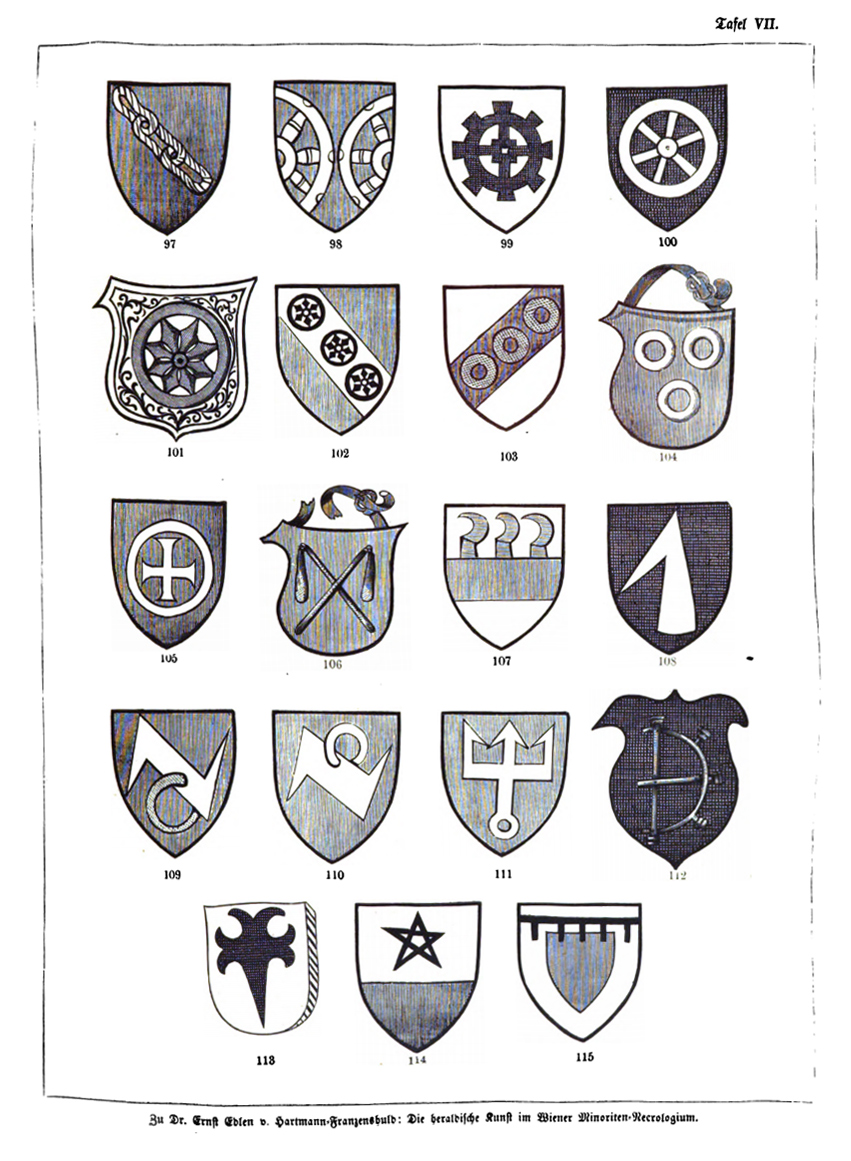 Heraldry description from tableux from Minorites Monastery in Vienna. Screenshot from ADLER Heraldisch-Genealogische Gesellschaft Neues Jahrbuch: Band 1 (1874)